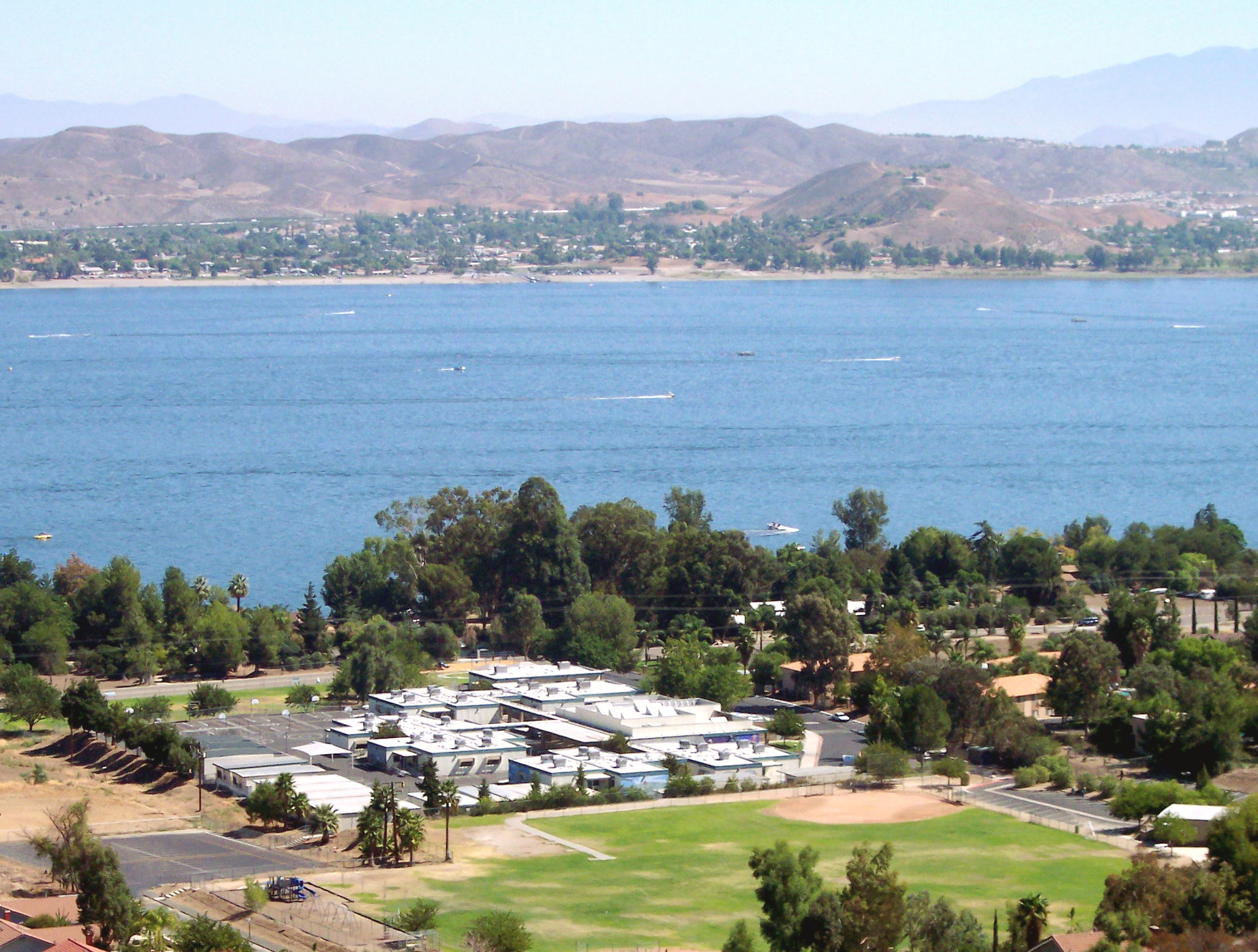 Butterfield Elementary School in Lake Elsinore, California from Calif. State Highway 74 above and behind the school.02:45, 16 September 2007 (UTC) DavidPickett 02:45, 16 September 2007 (UTC)